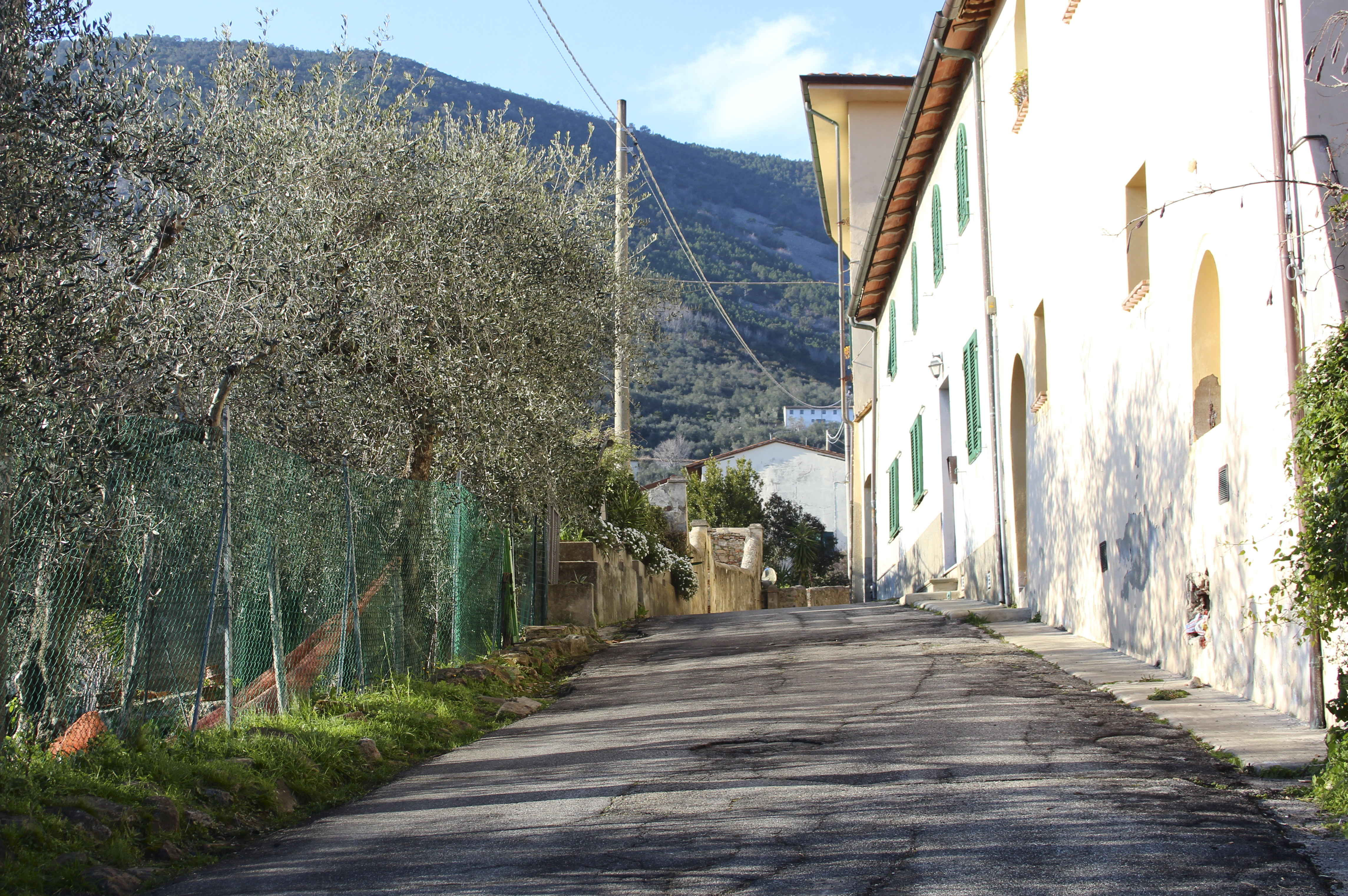 Colle (Colle-Villa), hamlet of Calci, Province of Pisa, Tuscany, Italy